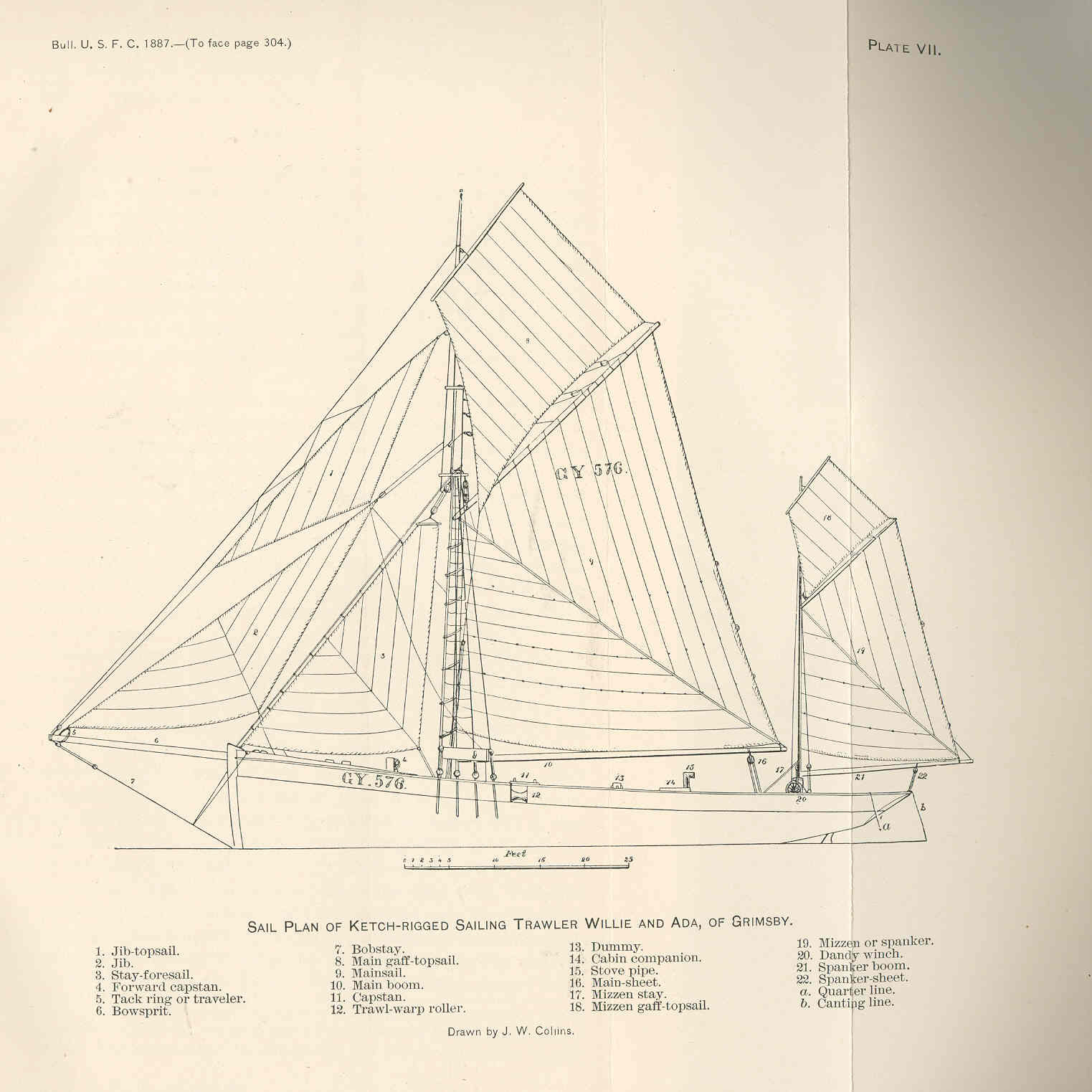 Sail Plan of Ketch-Rigged Sailing Trawler Willie and Ada, of Grimsby Subject: Sailboats, Trawlers (Vessels), Willie and Ada (Boat), Sails Tag: Vessels